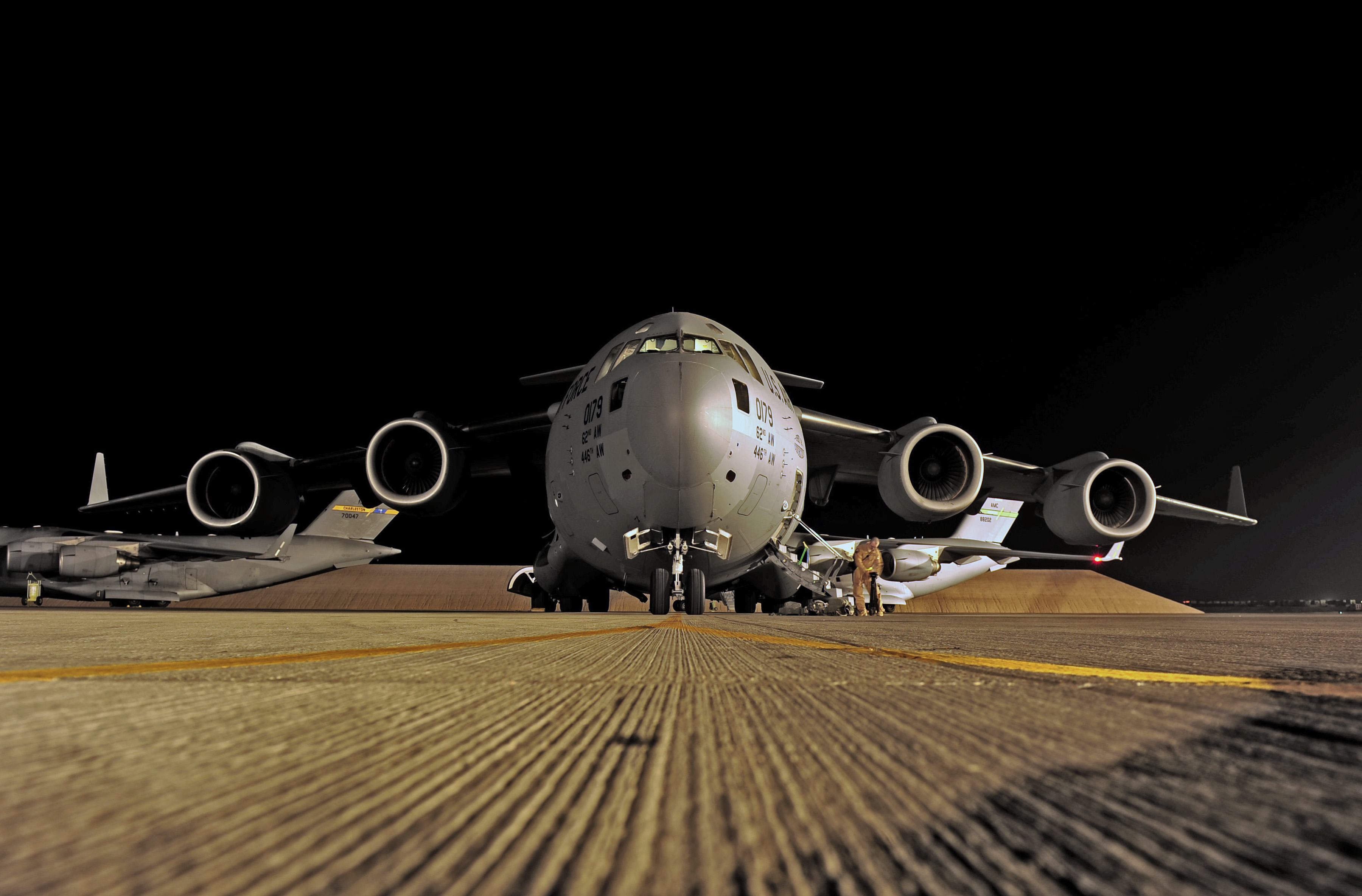 A U.S. Air Force C-17 Globemaster III aircraft assigned to the 816th Expeditionary Airlift Squadron, sits on the flight line during pre-flight checks prior to an aerial transport of an M1A1 Abrams tank to Afghanistan in support of Operation Enduring Freedom on Nov. 28, 2010. The 816th EAS is currently deployed to an undisclosed location in Southwest Asia. (U.S. Air Force photo by Staff Sgt. Andy M. Kin)